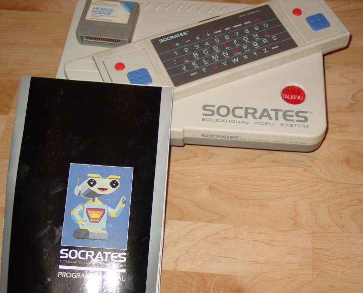 1988 Vtech Socrates talking version self made by Renegadeviking